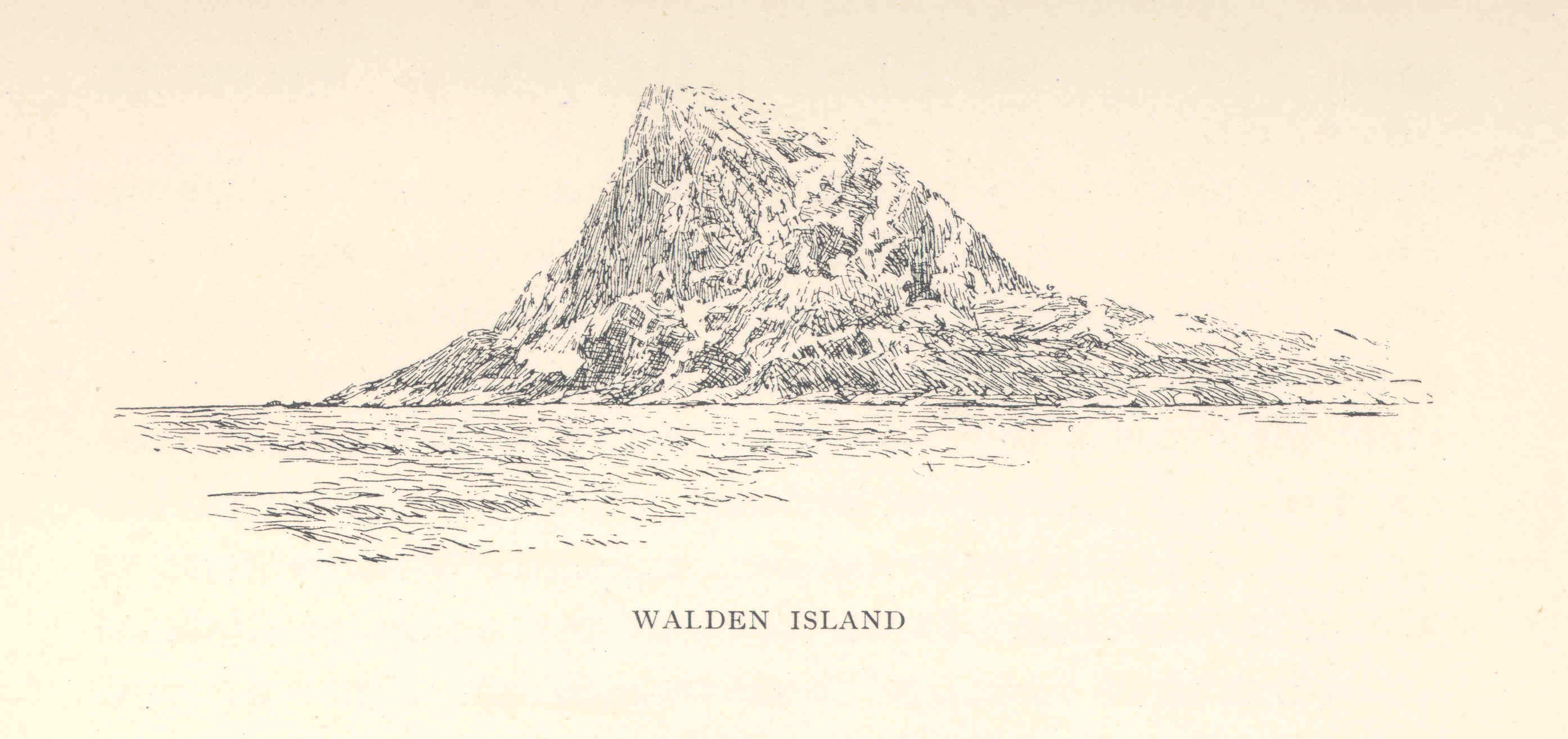 sketch drawing of Waldenøya, Northern Spitsbergen